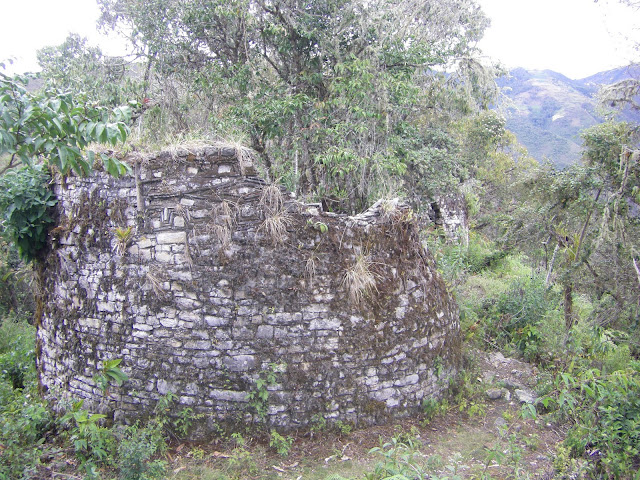 Ruins "La Congona", about 2 hours walk from Leymebamba, August 2012